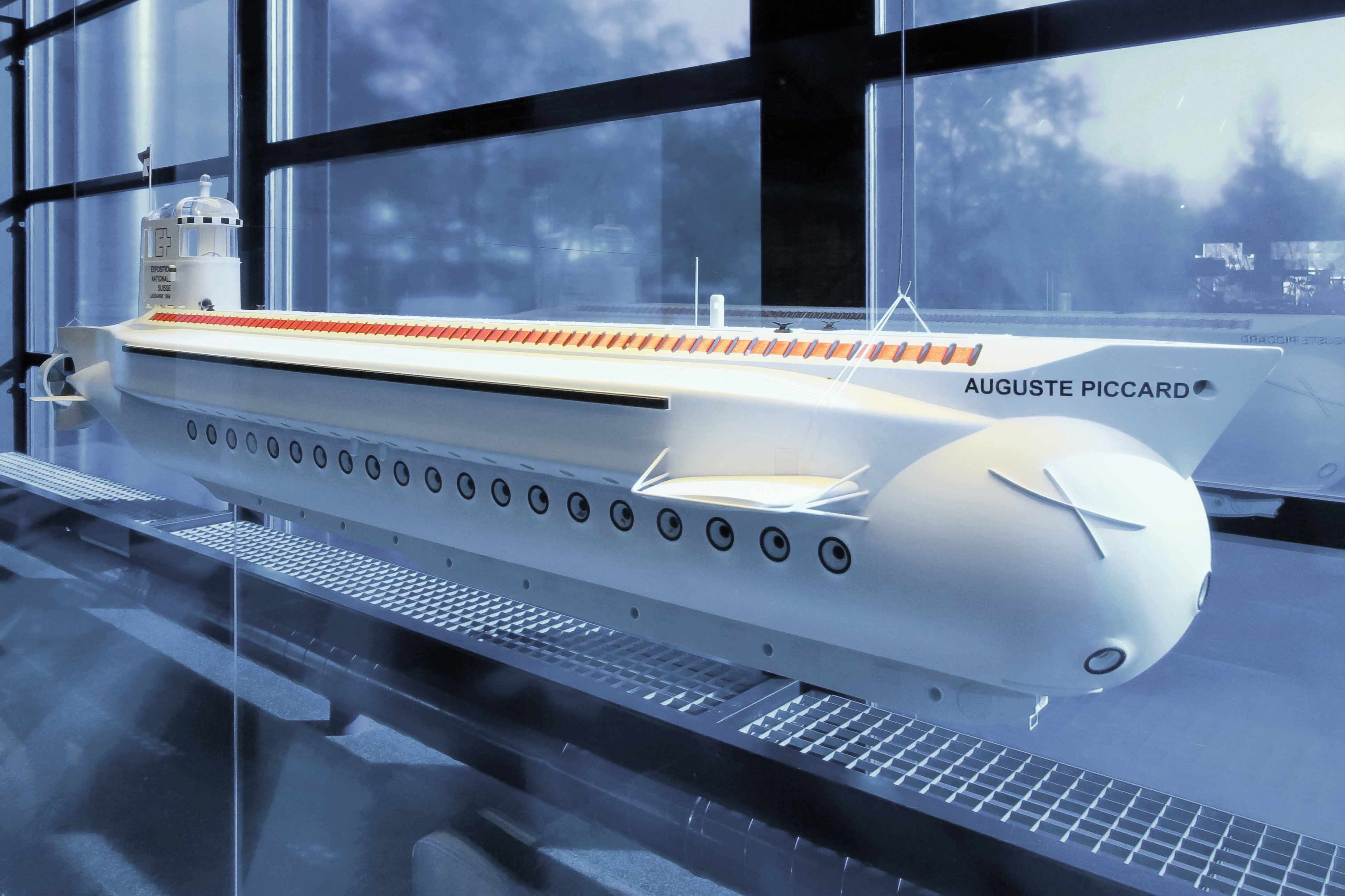 The first and till this day largest built submarine for tourism purposes, and also the largest non-military submarine. The Swiss oceanographer Jacques Piccard built it for the Swiss National Exhibition in 1964. Model in the Swiss museum of transportation in Lucerne, Switzerland, Nov 3, 2014. (1/15)